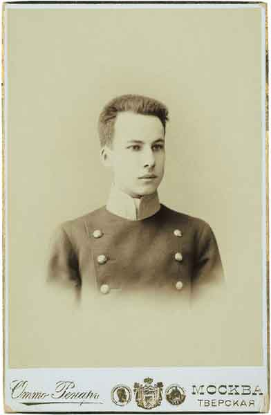 Russian novelist, poet and literary critic Andrei Bely (1880–1934)